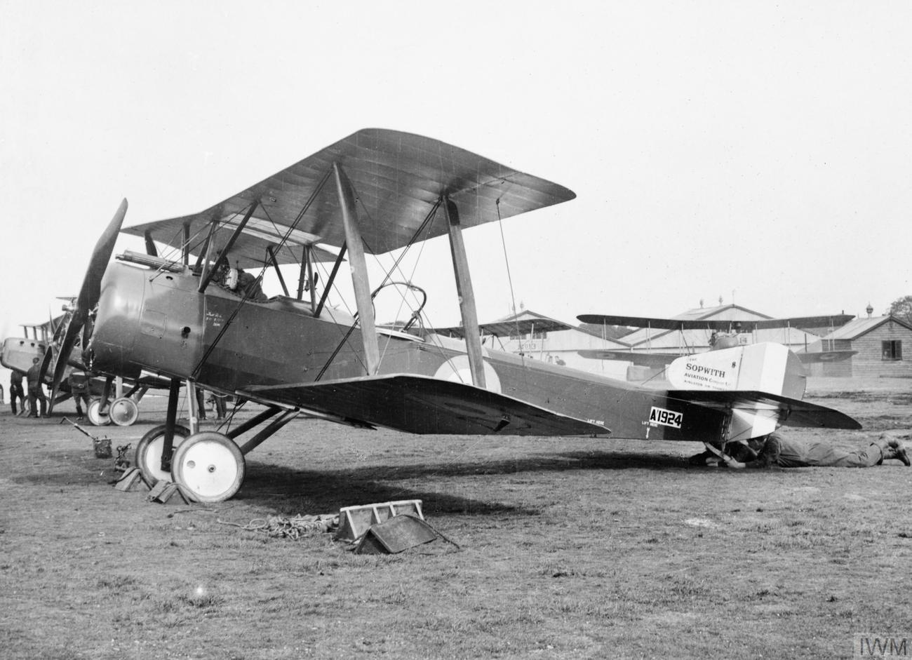 Royal Flying Corps or Royal Air Force Sopwith 1 1/2 Strutter in 1917-1918 period.